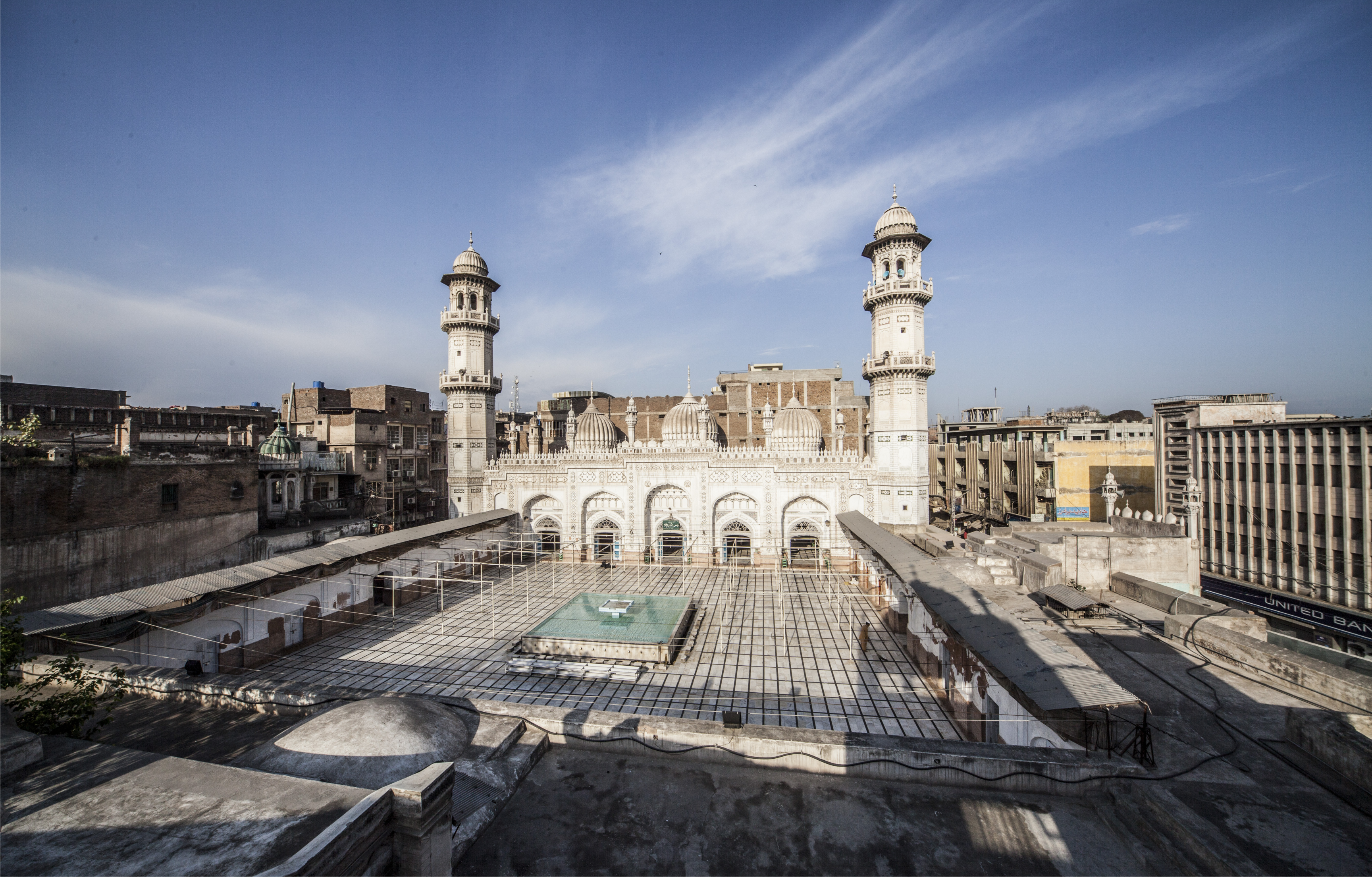 A U.S. Ambassadors Fund for Cultural Preservation (AFCP) grant supported the restoration of the Mughal-era stucco, plaster and painted decoration on the lower walls of the mosque.Mohabbat Khan Mosque, Peshawar